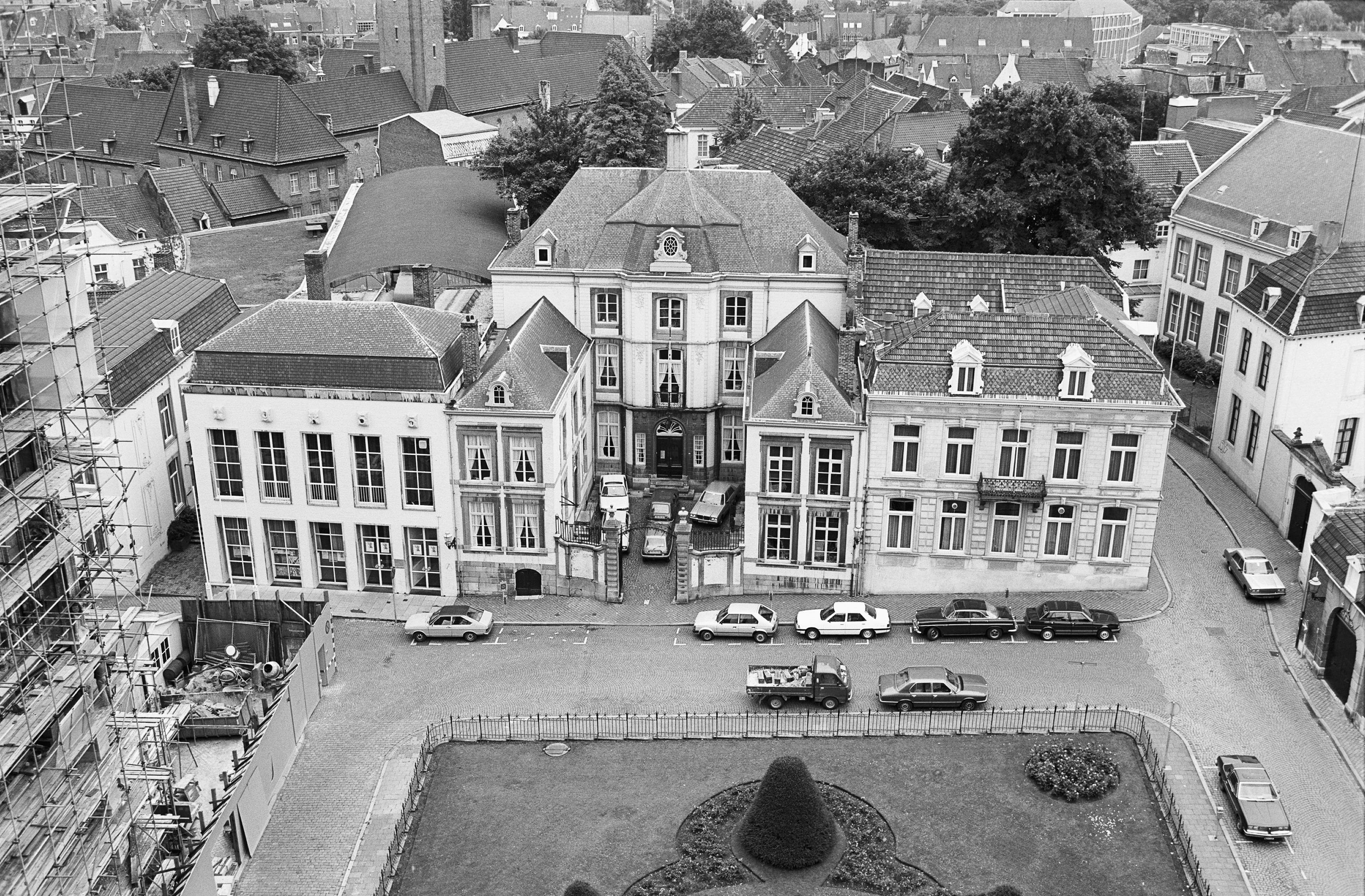 View from the Southwest tower of the Basilica of Servatius on Veldekeplein with the palace of the provost of Saint Servatius, Henric van Veldekeplein, Maastricht, Netherlands.